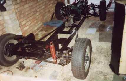 Locust Seven - Chassis Scan of original photograph taken by Peter Wannop